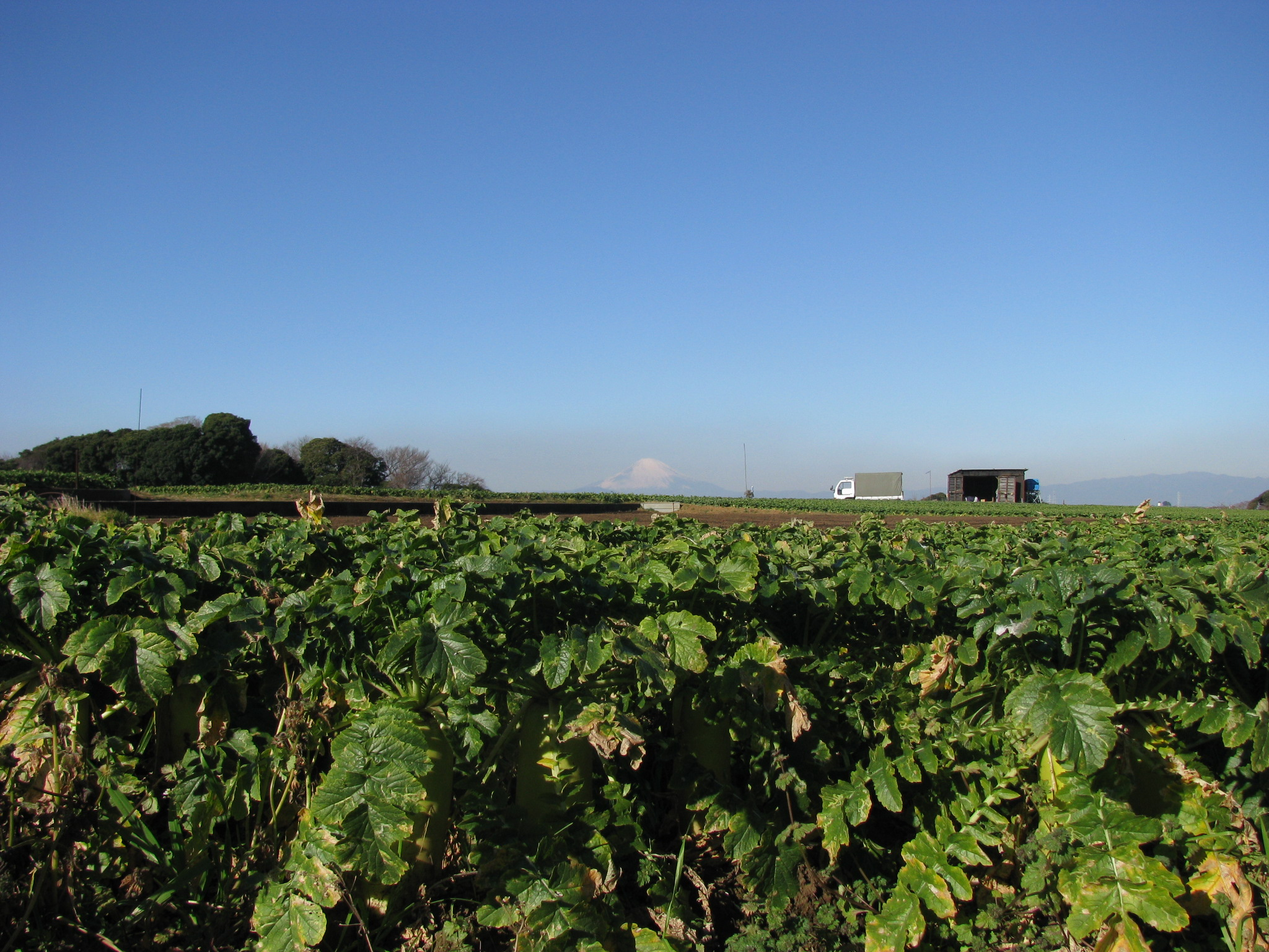 Miura landscape, Located in Kanagawa, Japan. The Radish fields, And Mount Fuji is visible in the distance.